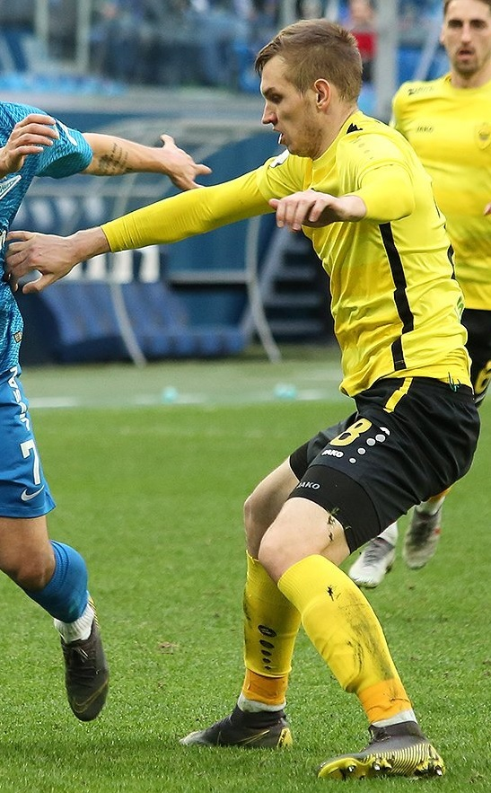 Pavel Kaloshin with FC Anzhi Makhachkala in a game against FC Zenit Saint Petersburg.